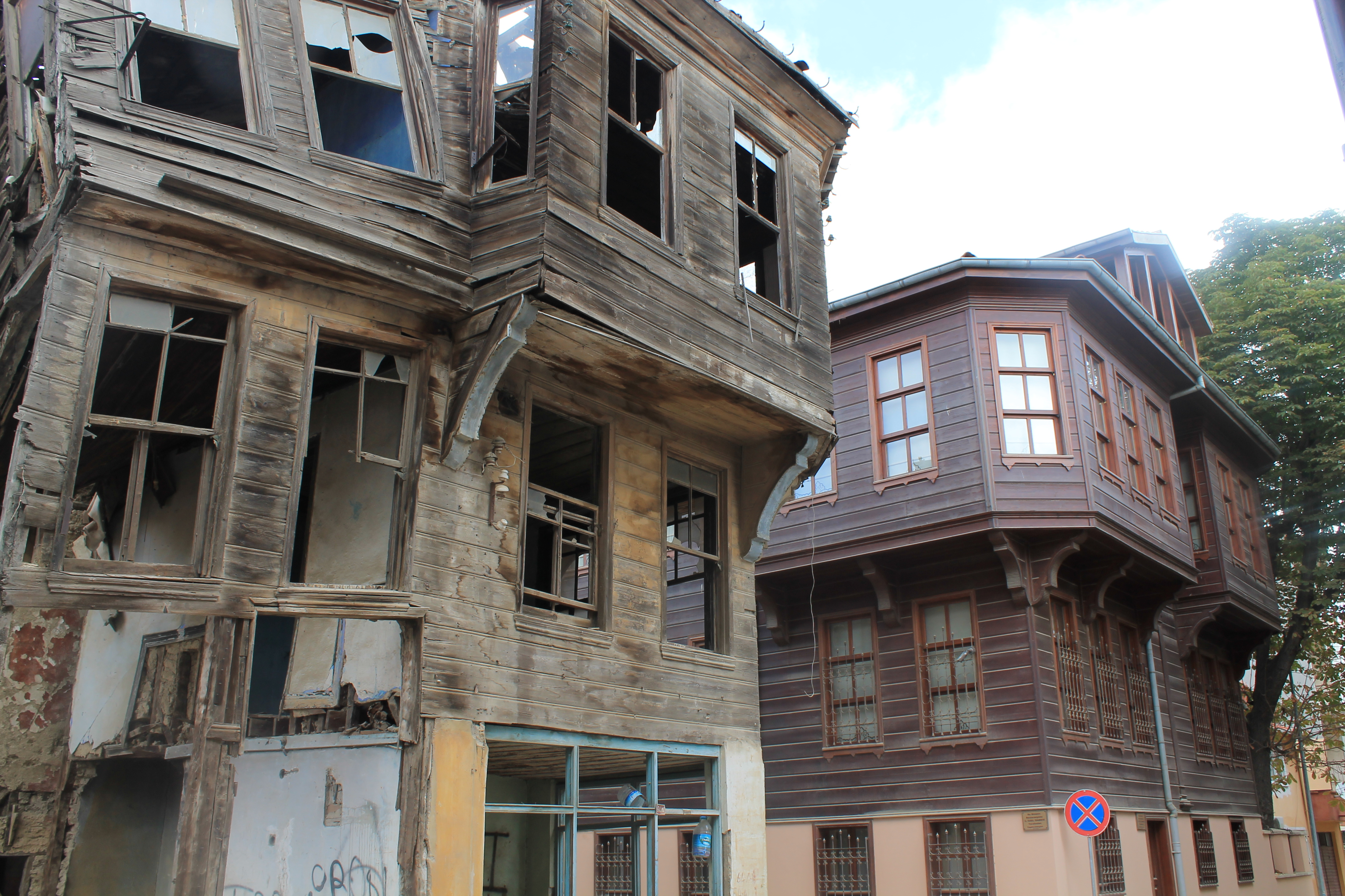 Civil Houses